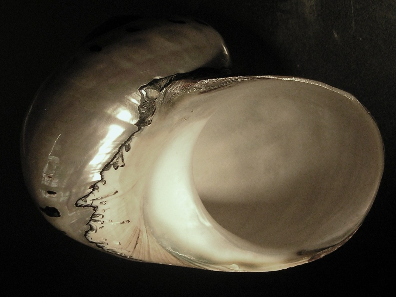 Turbo (Sarmaticus) sarmaticus Linnaeus, 1758, a sea snail from the family Turbinidae; South Africa